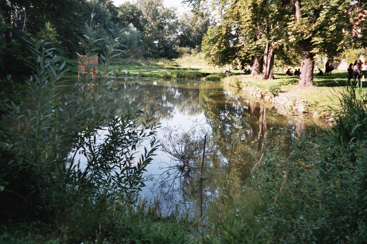 Třebešice (château_KH) K. Small Lake in the Garder, Kutná Hora District, the Czech Republic.